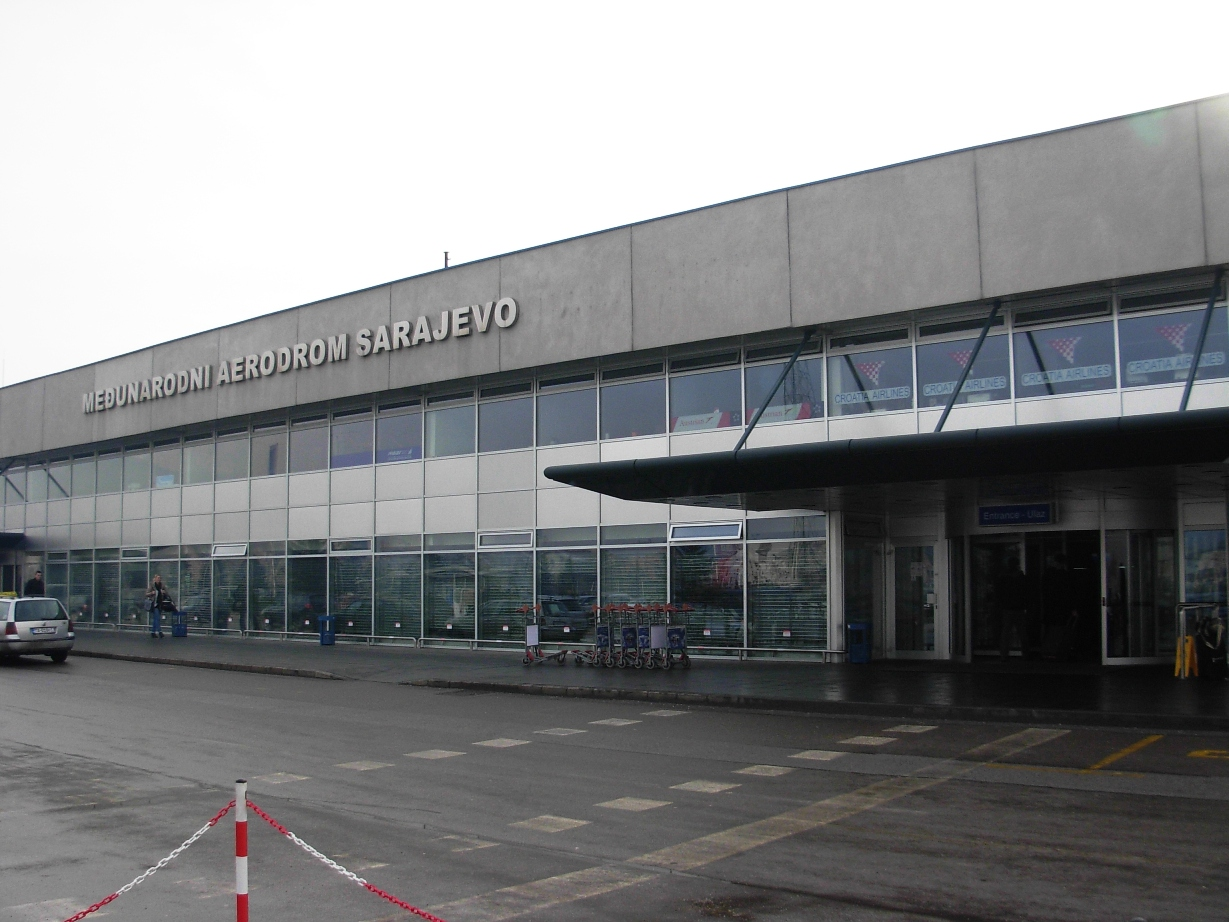 Sarajevo International Airport, Bosnia and Herzegovina.